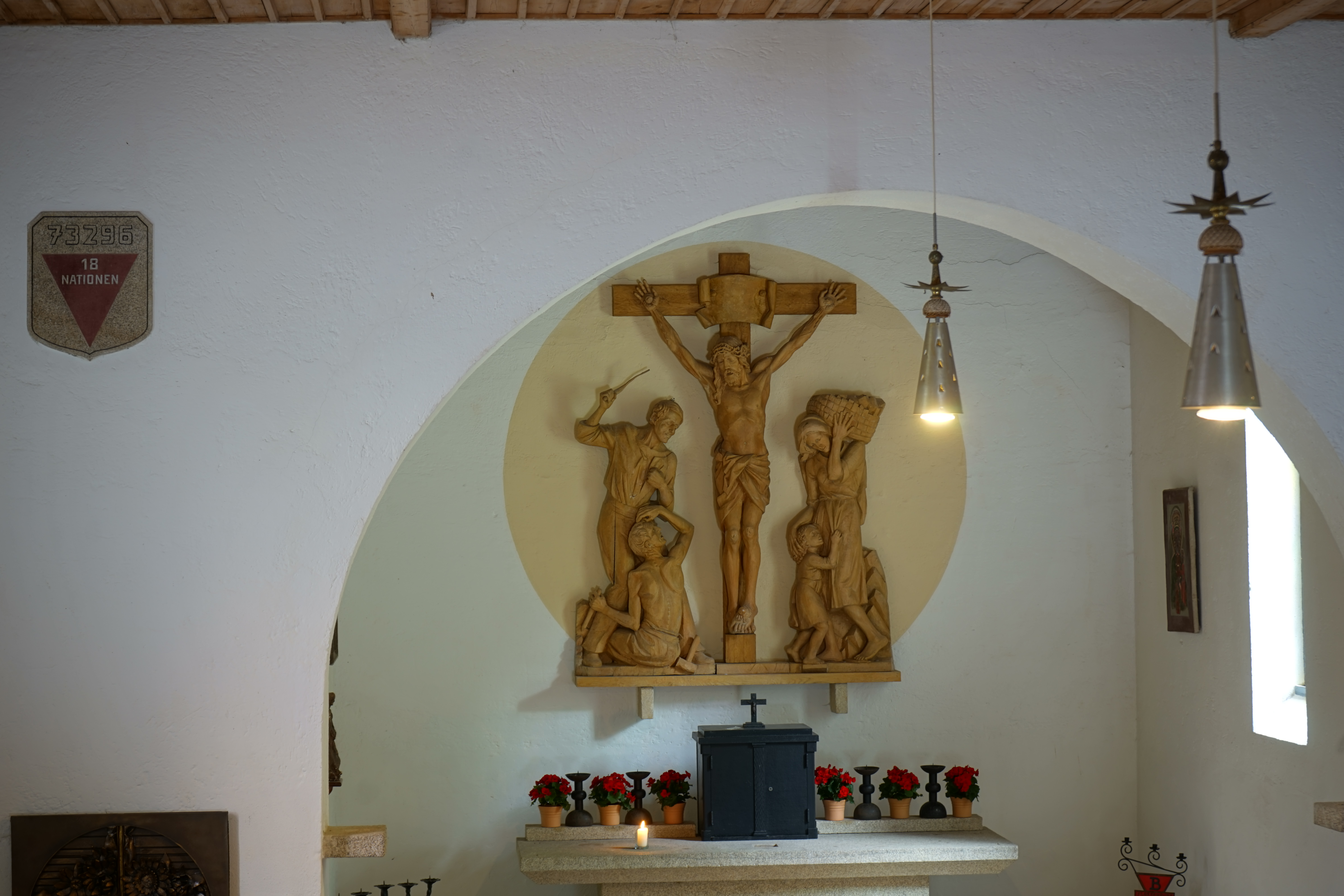 Flossenbürg concentration camp, chapel interieur.